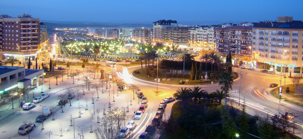 Expansion Overview of the neighborhood north of Jaén (Spain), before the start of construction of the tram.